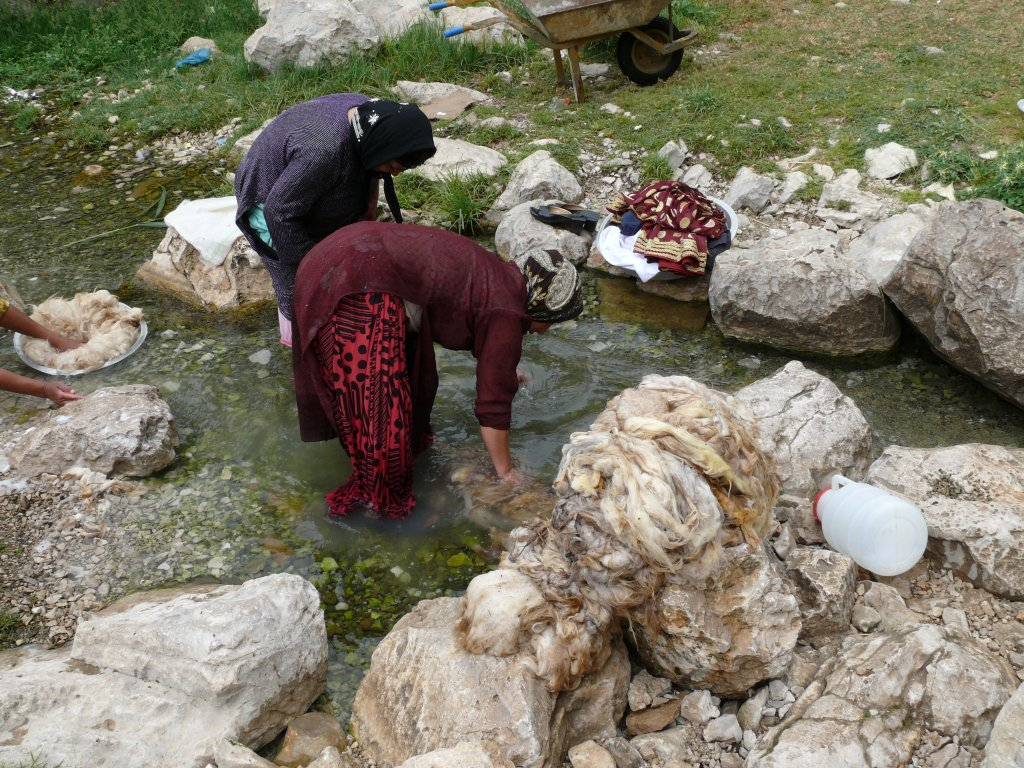 Khashkaï women (nomadic shepperds) washing the wool in the spring of Sarab Bahram (Cheshm-e Sarab Bahram), region of of Noorabad, Province of fars, Iran